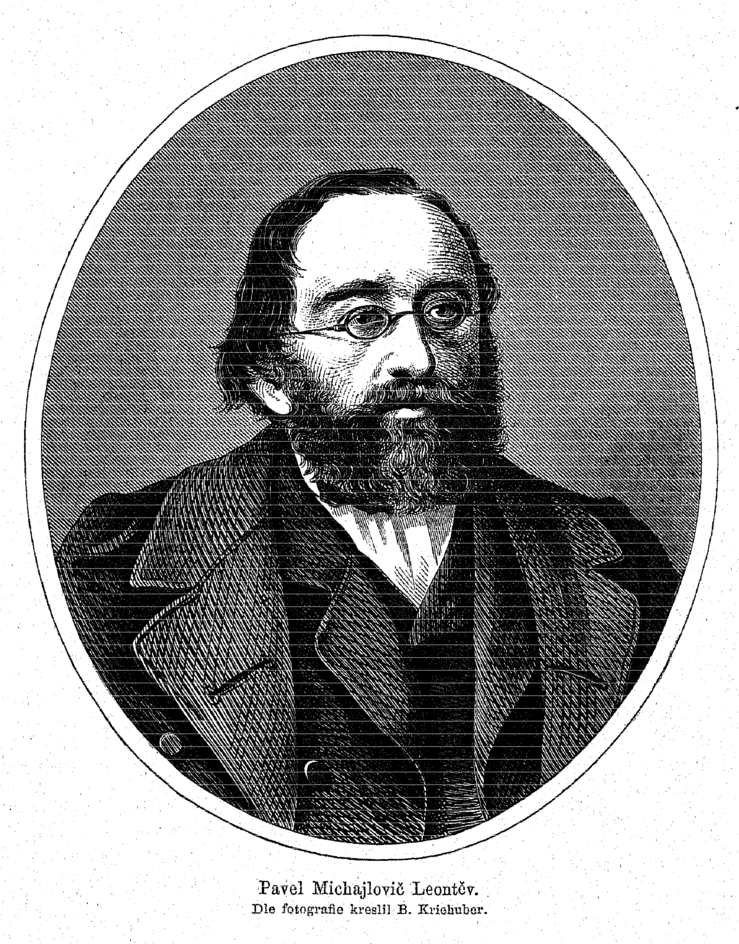 Portrait of Pavel Mikhailovich Leontyev (Russian: Павел Михайлович Леонтьев, 1822-1874), Russian philologist